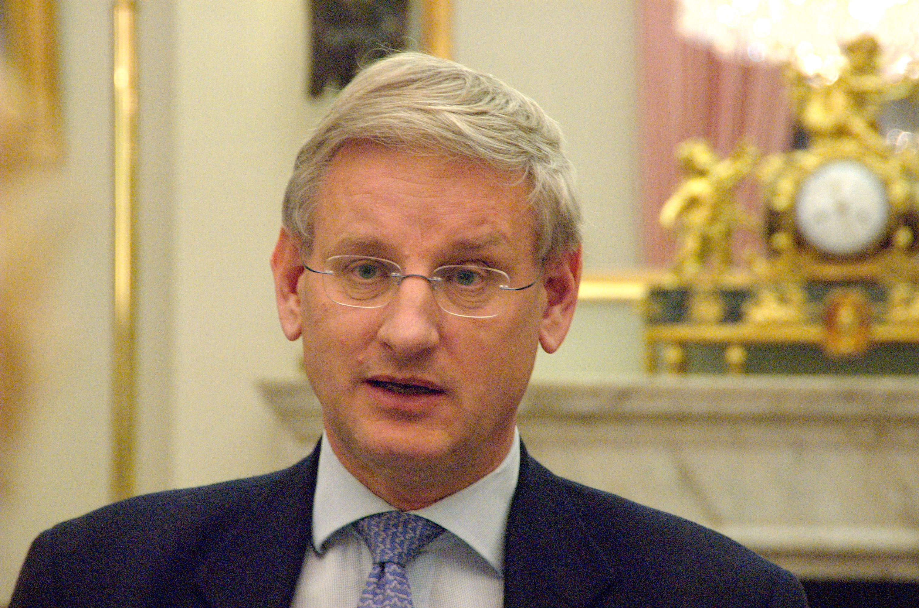 Carl Bildt, foreign minister in Sweden